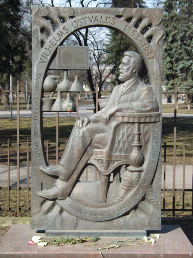 Monument to Wilhelm Ostwald in Riga, Latvia